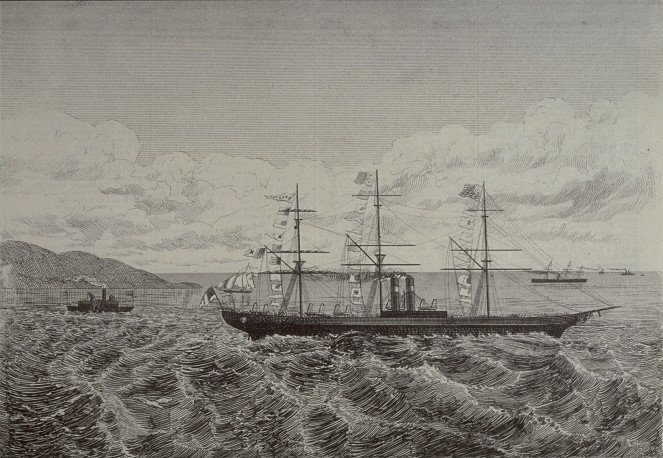 The S. S. City of Brussels, bearing the Irish Canadian Pilgrims to Rome, off Sandy Hook - The Steamer Seth Lowe parting Company. After her November 1876-1877 refit where she was re-engined by George Forrester & Co, Liverpool